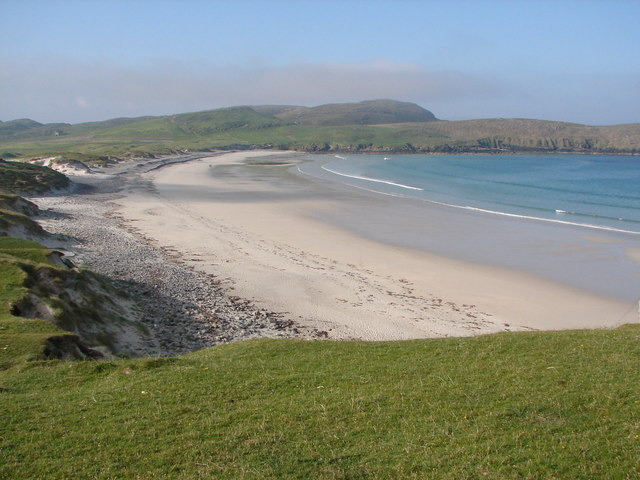 Bagh Siar Bay and Dunes Very quiet beach on west side of Vatersay